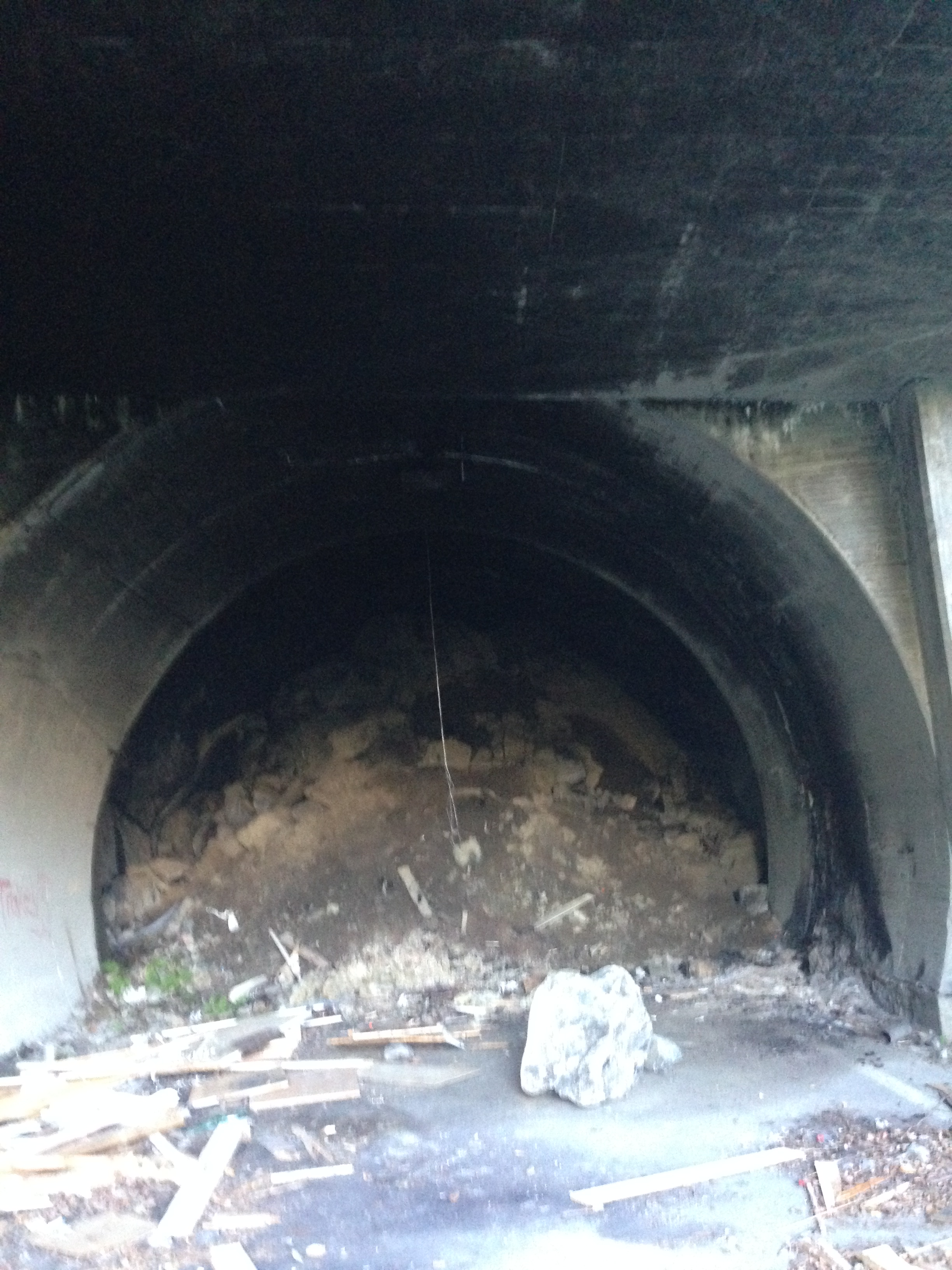 Stabbegjølet tunnel northern portal